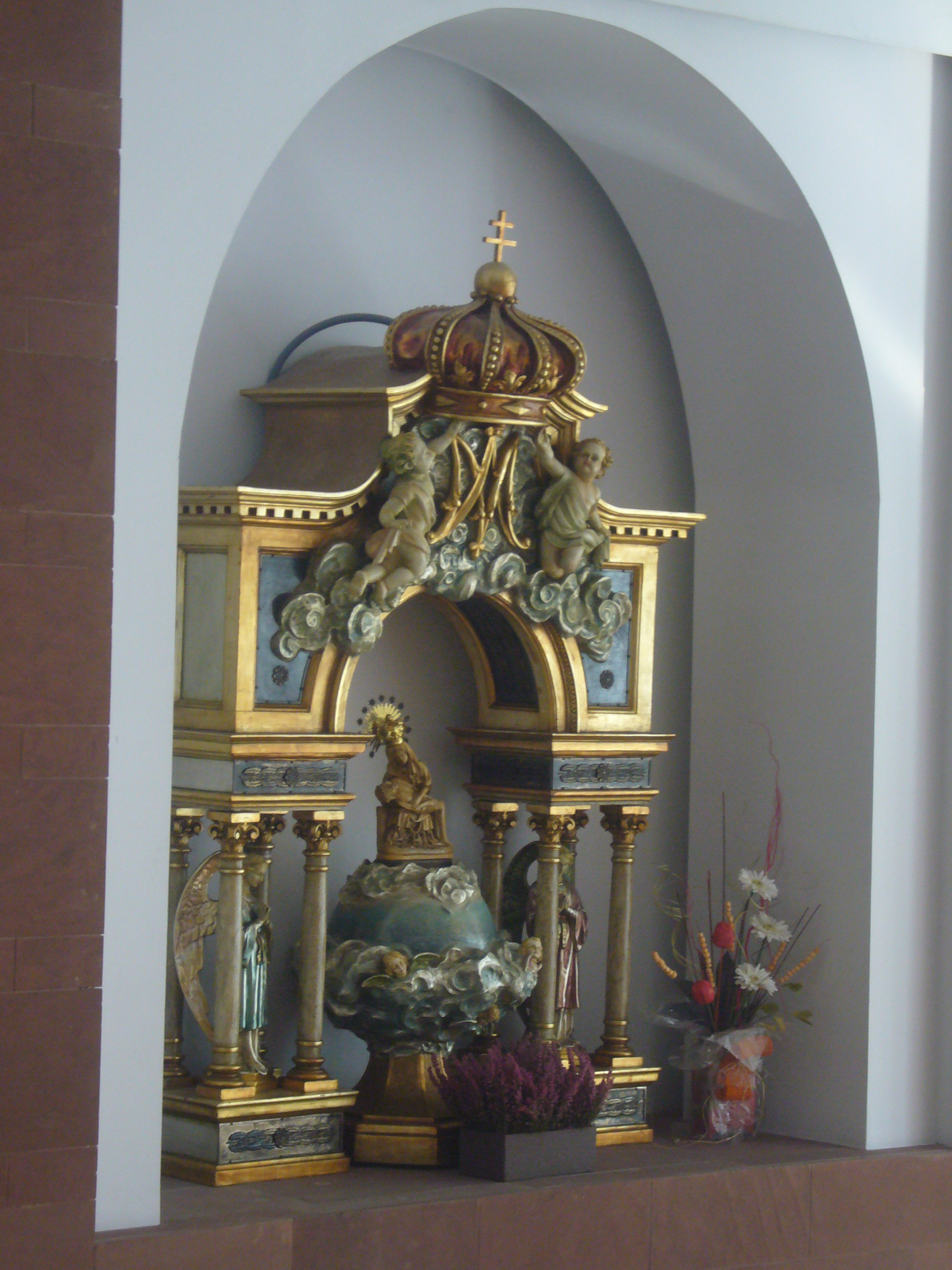 Statue of Verge de la Pietat d'Igualada, inside the church "Mare de Déu de la Pietat"